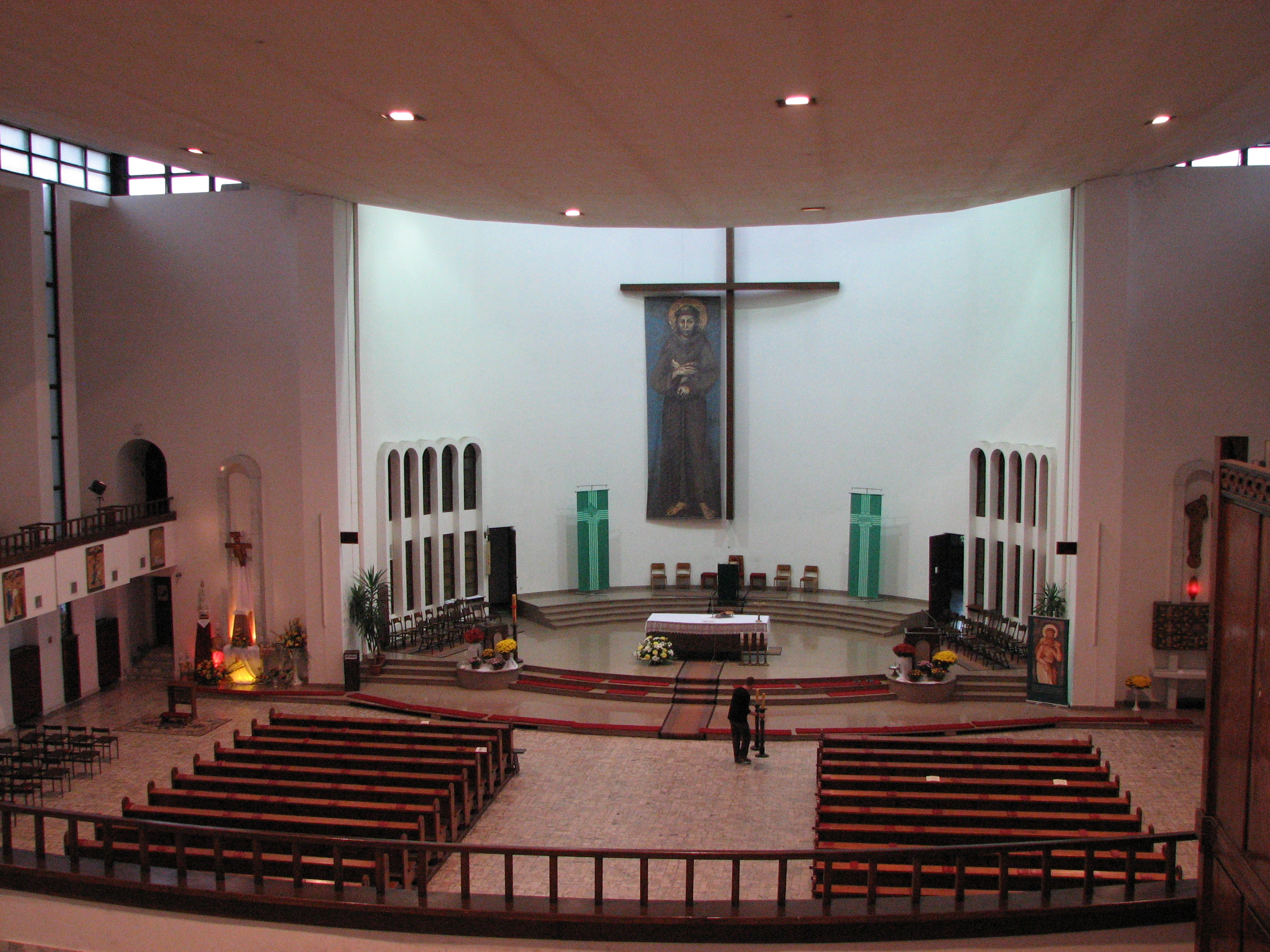 Franciscan Monastery in Chorzów Klimzowiec, Poland